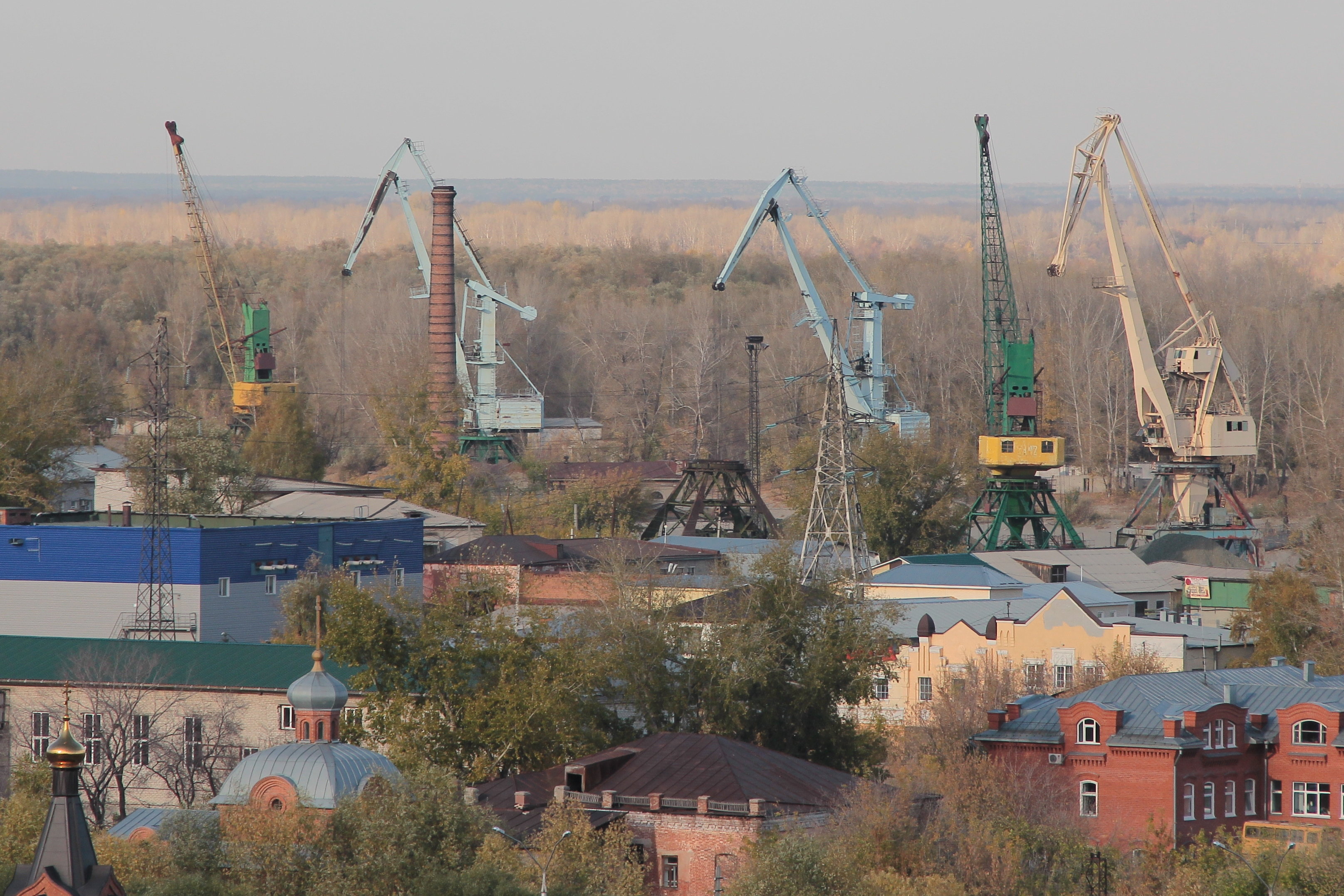 The Barnaul river port (view from hilltop part of city)